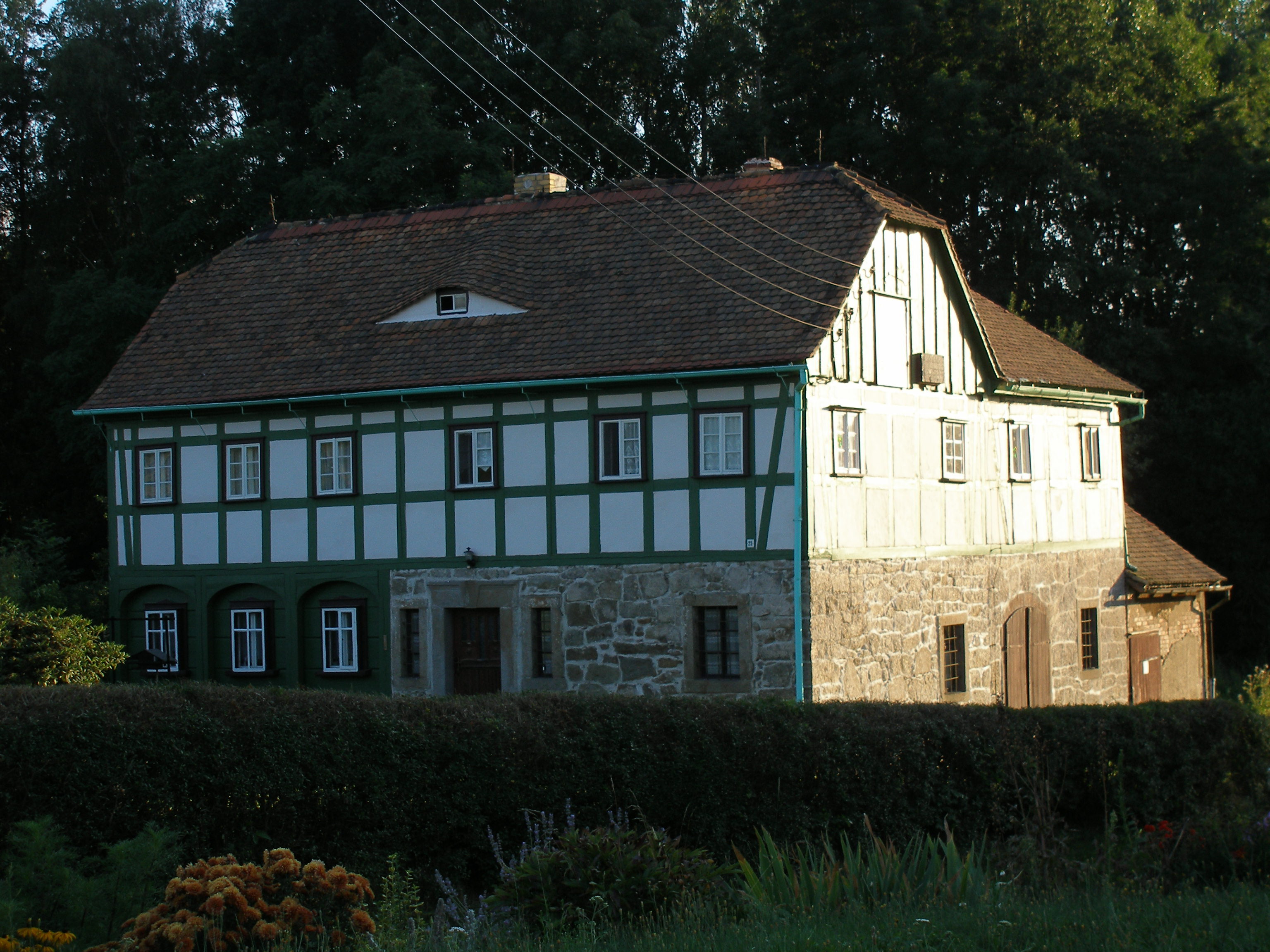 House in Niedercunnersdorf-Ottenhain, Saxony, Germany